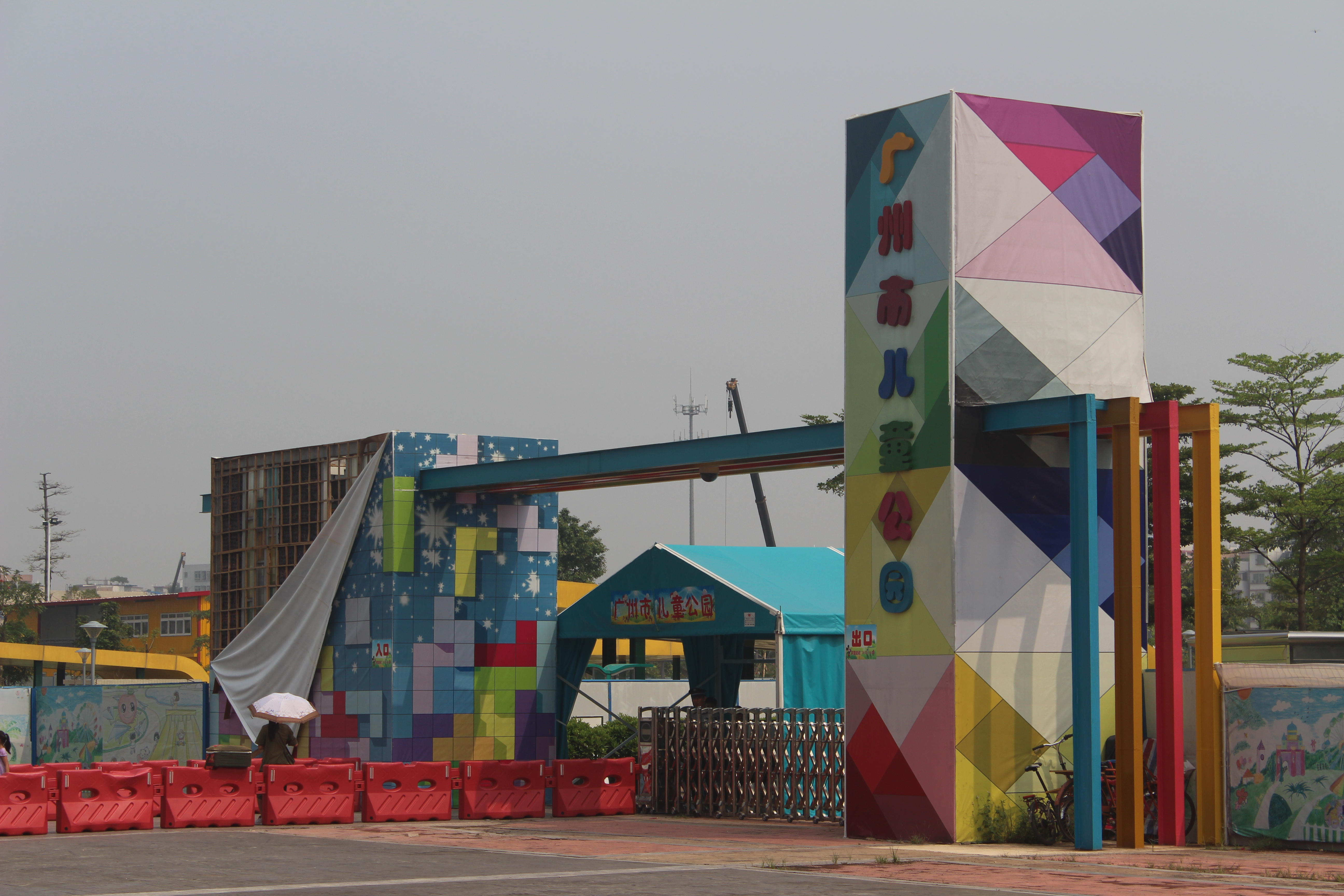 Guangzhou Children's Park